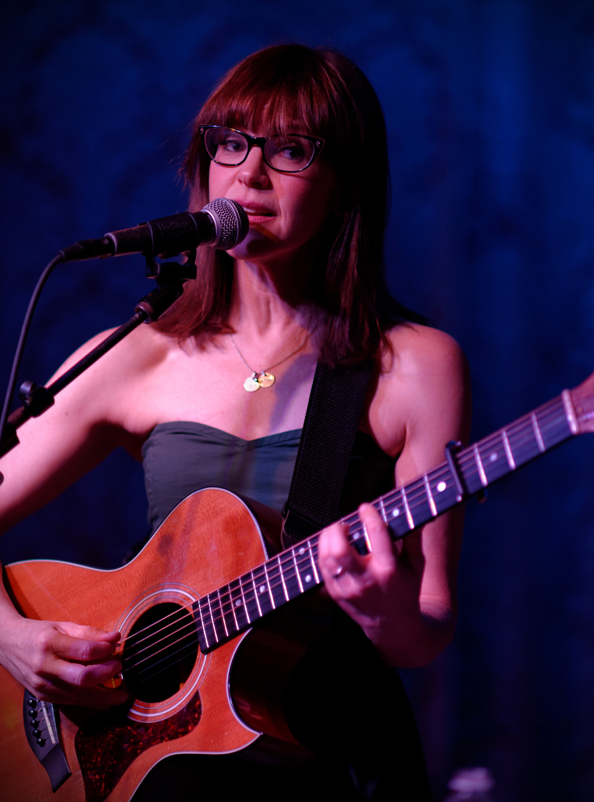 Lisa Loeb performing live at Saint Rocke in Hermosa Beach California on Thursday April 16th, 2015.